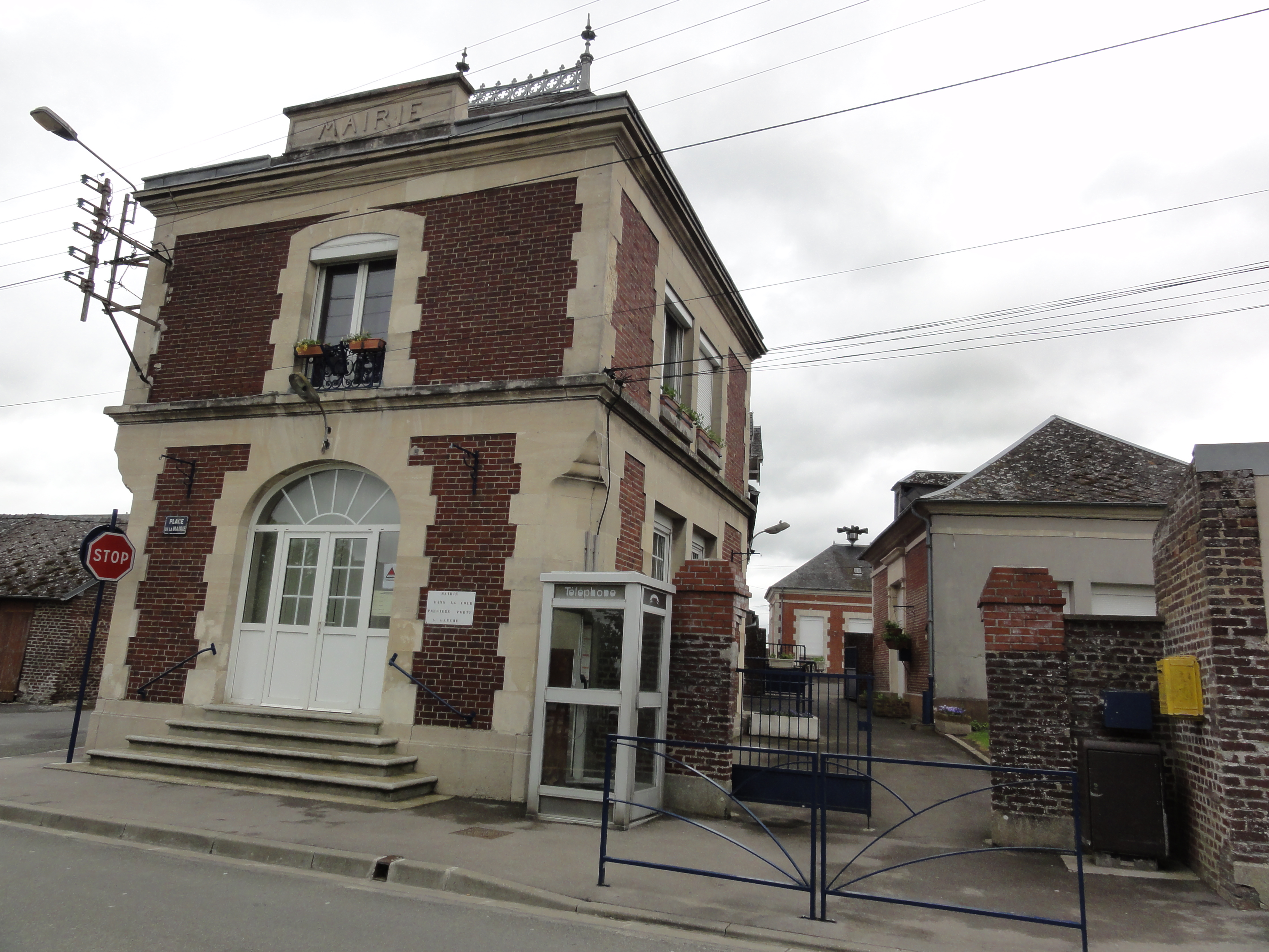 Danizy (Aisne) mairie